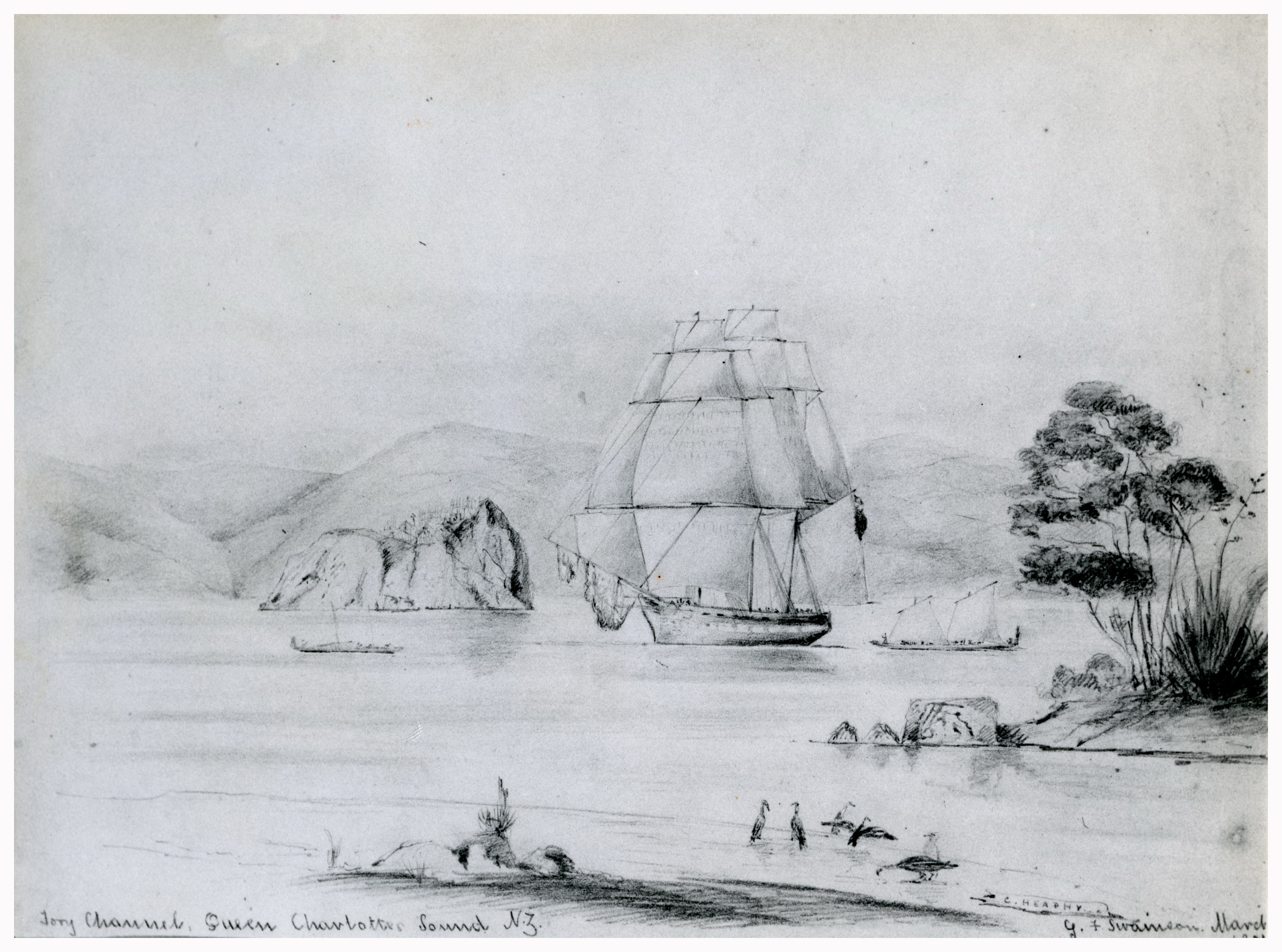 This photograph of an artwork shows a ship in Queen Charlotte Sound. The back of the print states that it is the Cuba, but another version at the National Library notes: 'The Tory in full sail, sailing through Tory Channel, with a Māori canoe with two sails behind it, a smaller canoe with masts in front. Seabirds on rocks in the foreground, a flax bush and mānuka on a headland to the right and a rocky island in the middle distance with the hills of Queen Charlotte Sound in the background Inscriptions: Inscribed - Recto - bottom left: title in pencil; also bottom right, C. Heaphy [enclosed in a cartouche] and below that G. F. Swainson March 1851. [i.e. copy of a Heaphy drawing by Swainson].' As noted, it was originally created by Charles Heaphy, who arrived in this area in 1839 aboard the Tory. Archives Reference: AAME 8106 W5603 Box 112 11/1/205 Material from Archives New Zealand